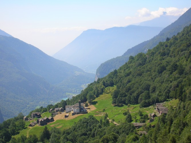 Salecchio superiore, an old walser village in Italy